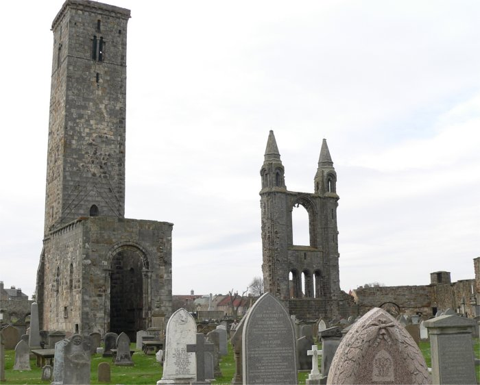 St Rule's Church on the terrain of St Andrews Cathedral, Scotland